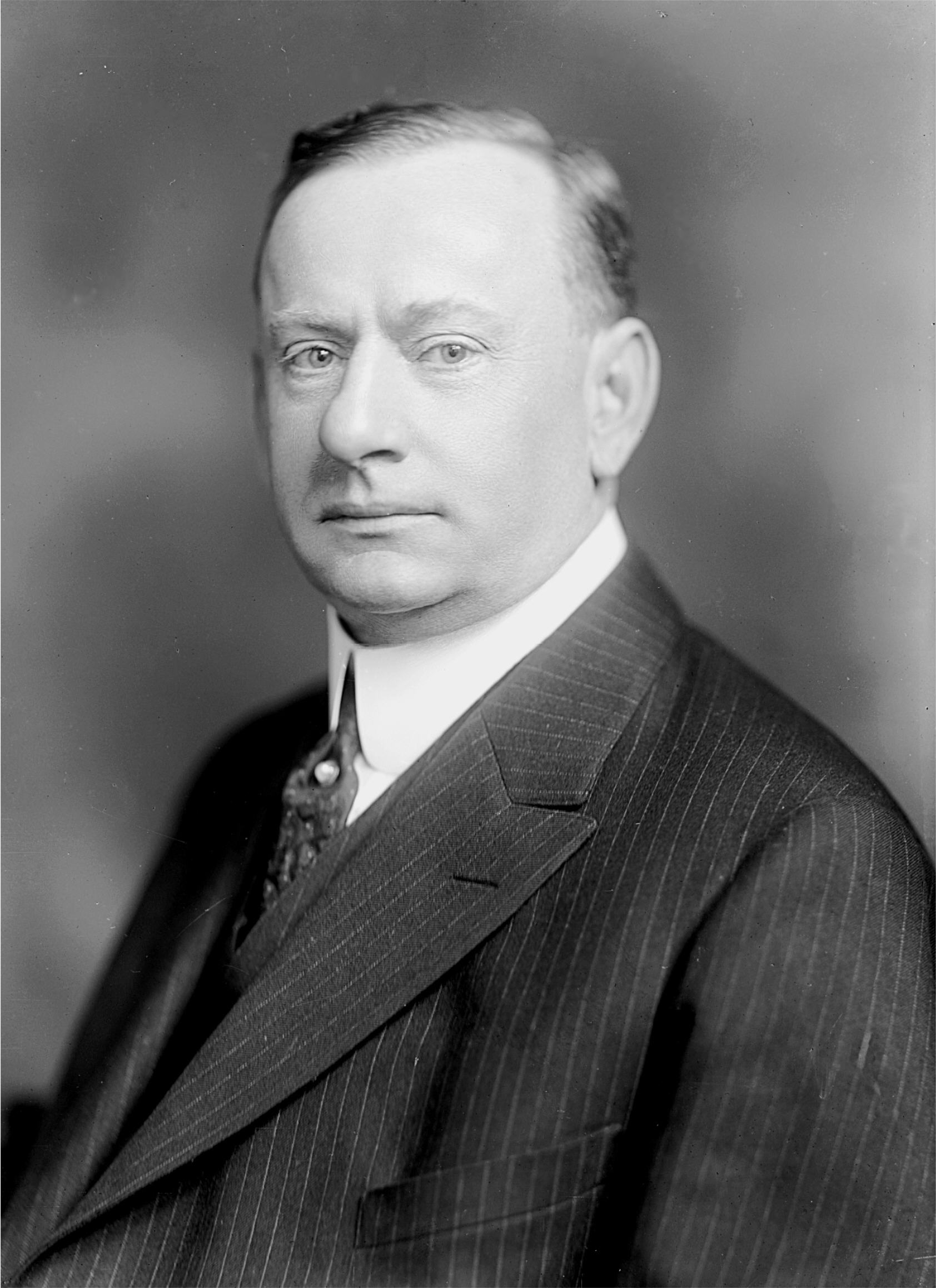 Congressman Leonidas C. Dyer of the 12th District St. Louis, Missouri.